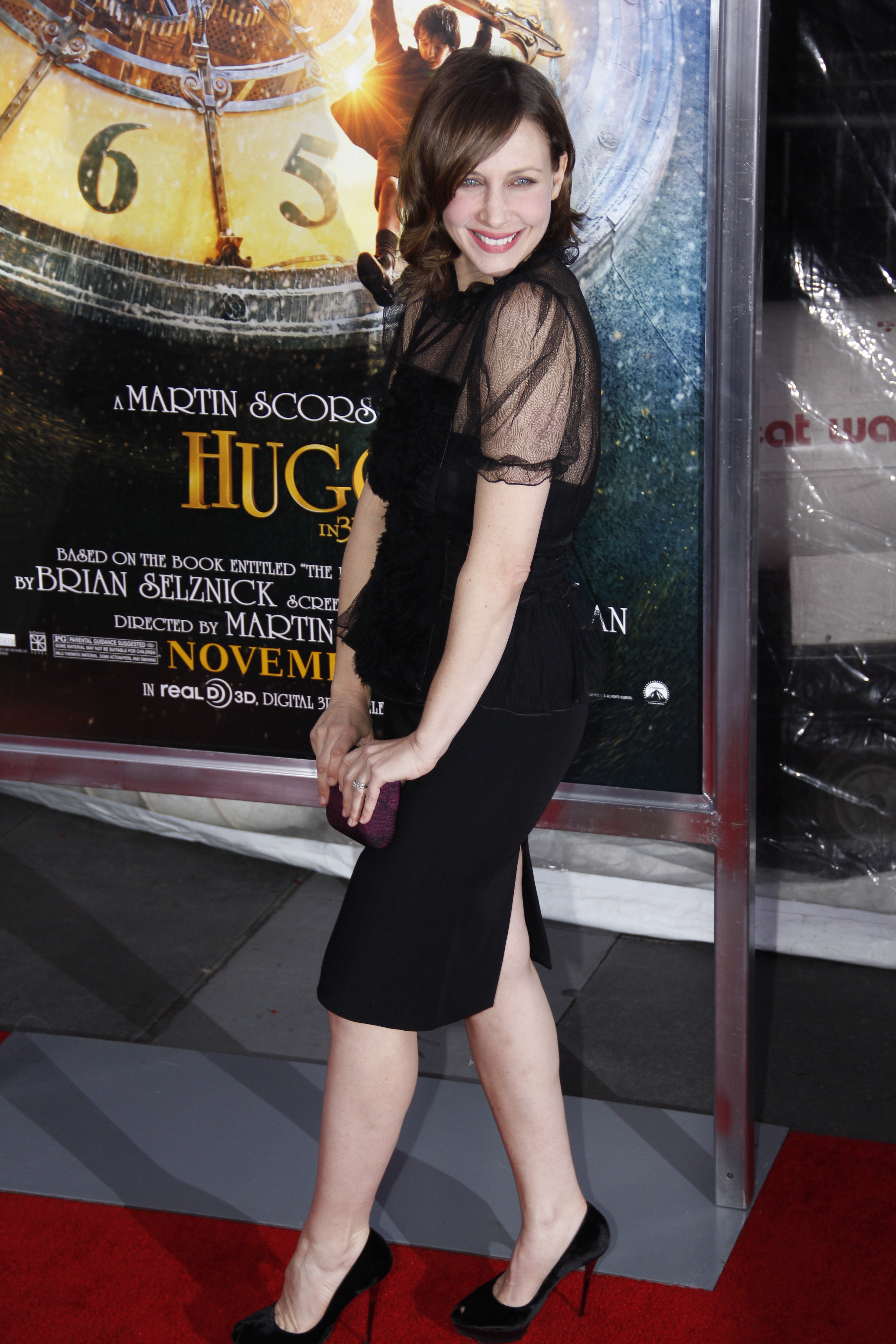 Hugo Premiere | Ziegfield Theatre, New York City | November 21st 2011